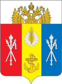 Aksai rayon (Rostov oblast), coat of arms (1990s)